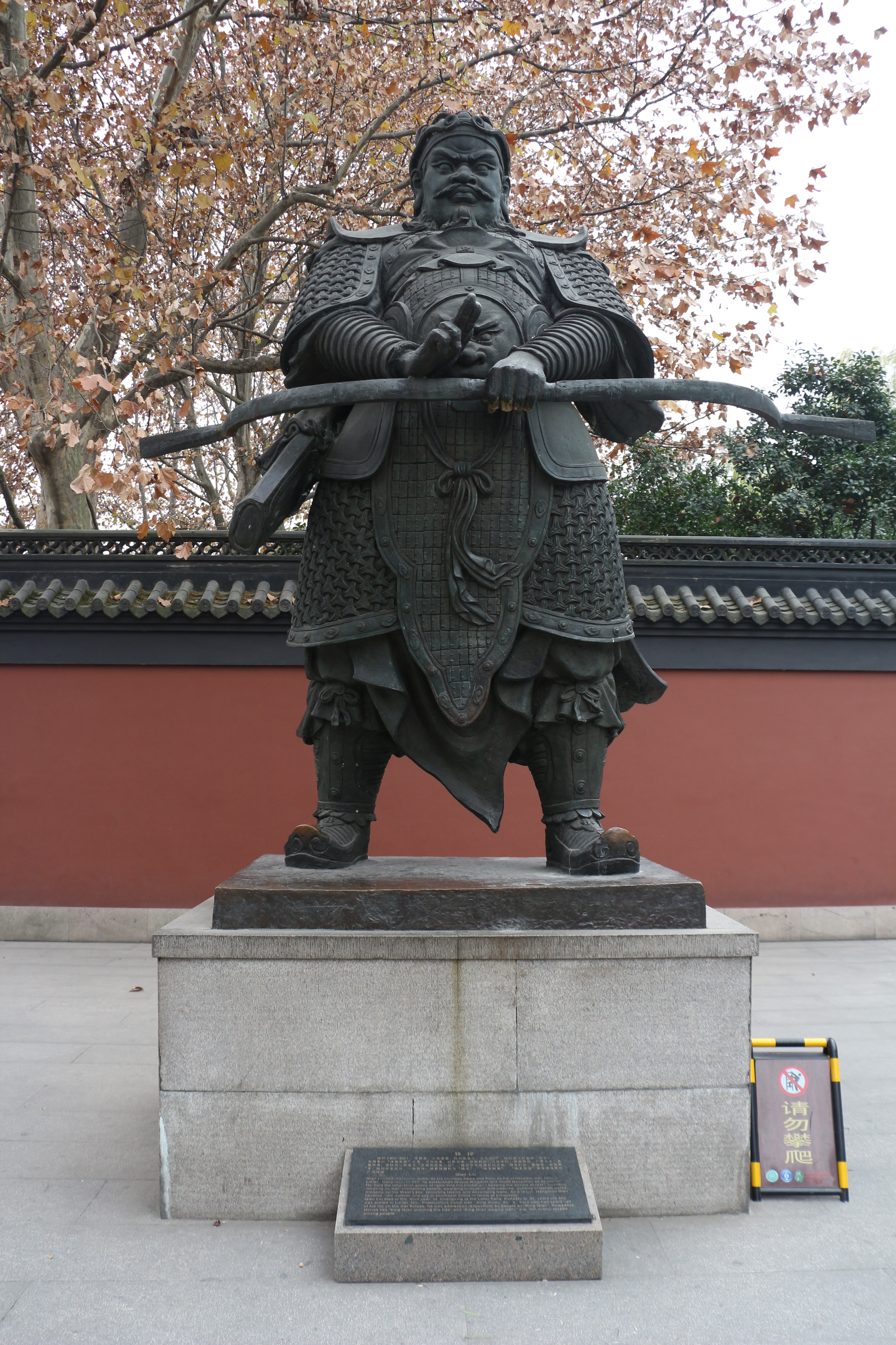 Qian Liu , the founder and first king of the Kingdom of Wuyue during the Five Dynasties and Ten Kingdoms period of China.